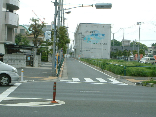 A photo of Urban Subsidary Route 255 ,taken at Shimane, Adachi-ward, Tokyo.